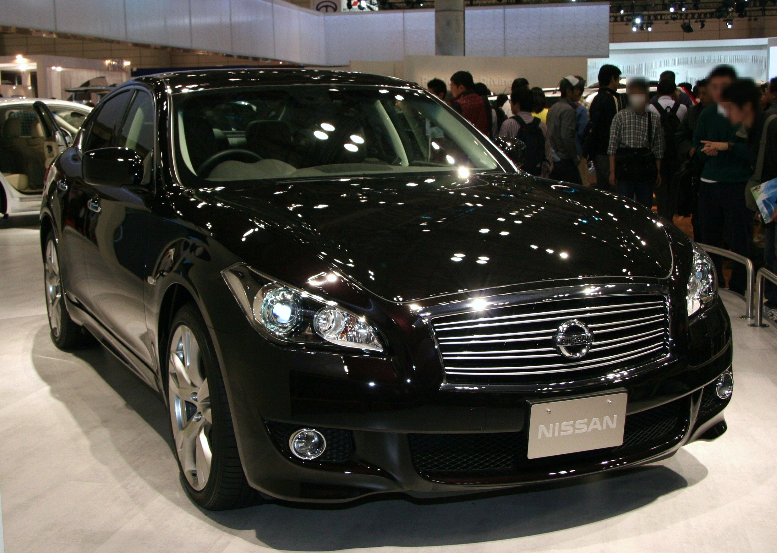 NISSAN FUGA